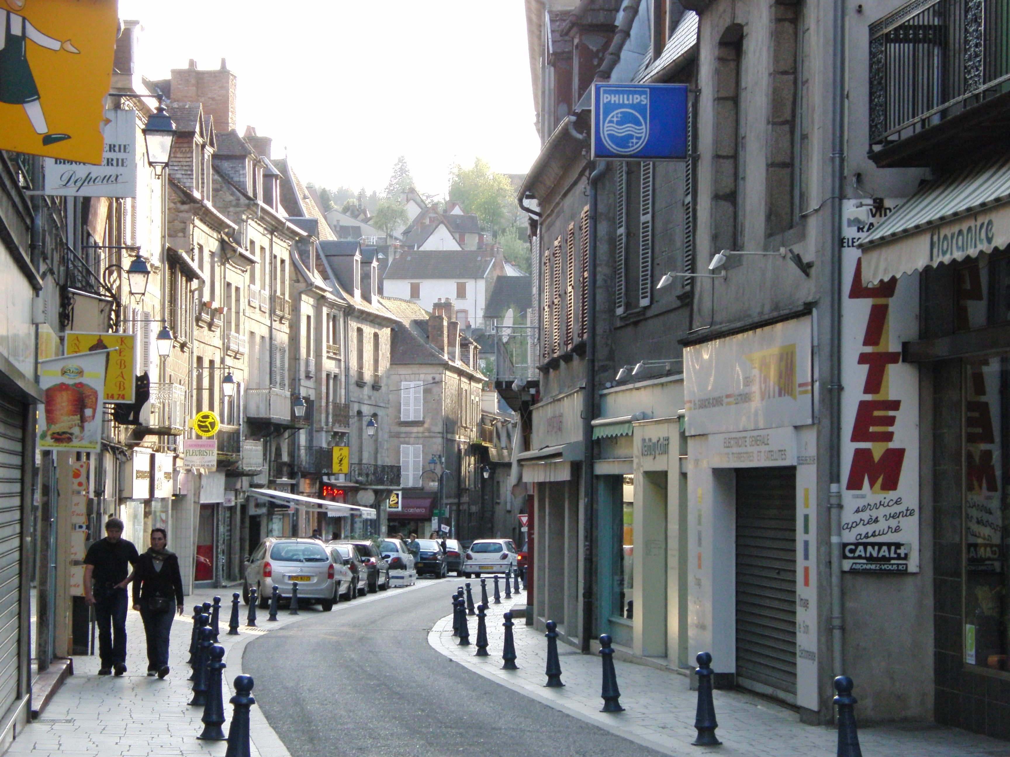 Aubusson Grande rue